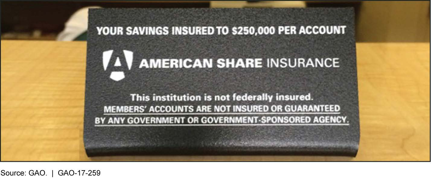 This image is excerpted from a U.S. GAO report: PRIVATE DEPOSIT INSURANCE: Credit Unions Largely Complied with Disclosure Rules, but Rules Should Be Clarified